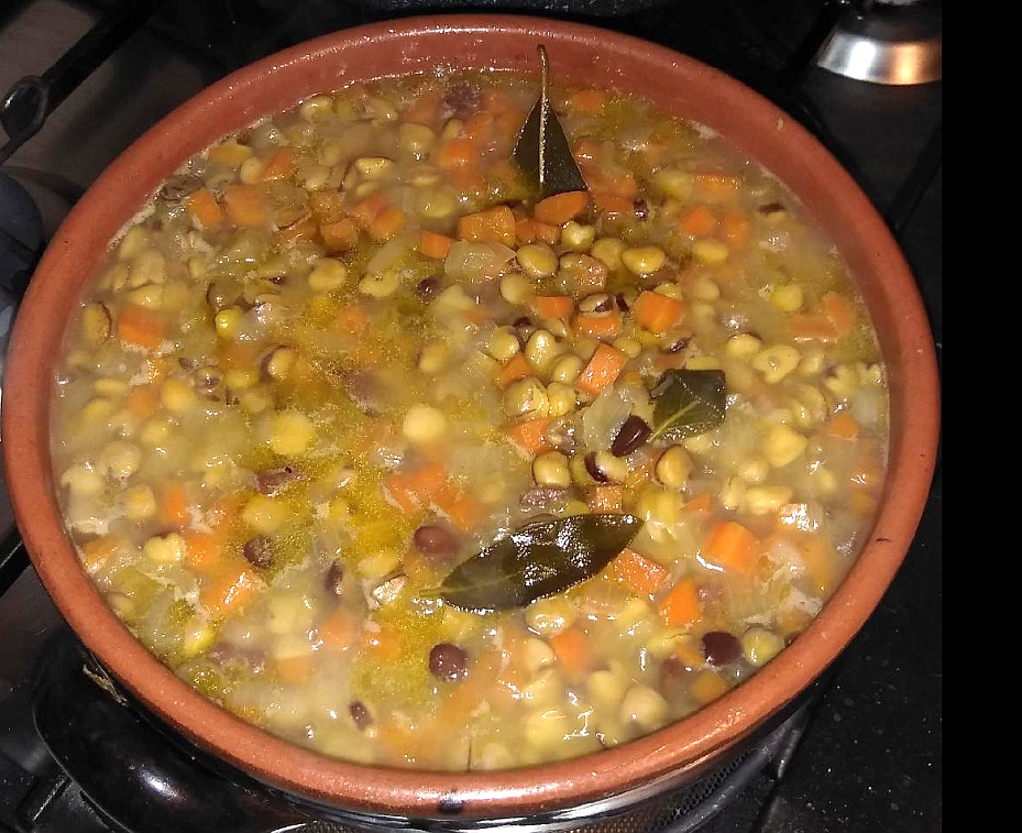 Cicerchia di Serra de' Conti (grass pea of Serra de' Conti) Ark of Taste food from Italy